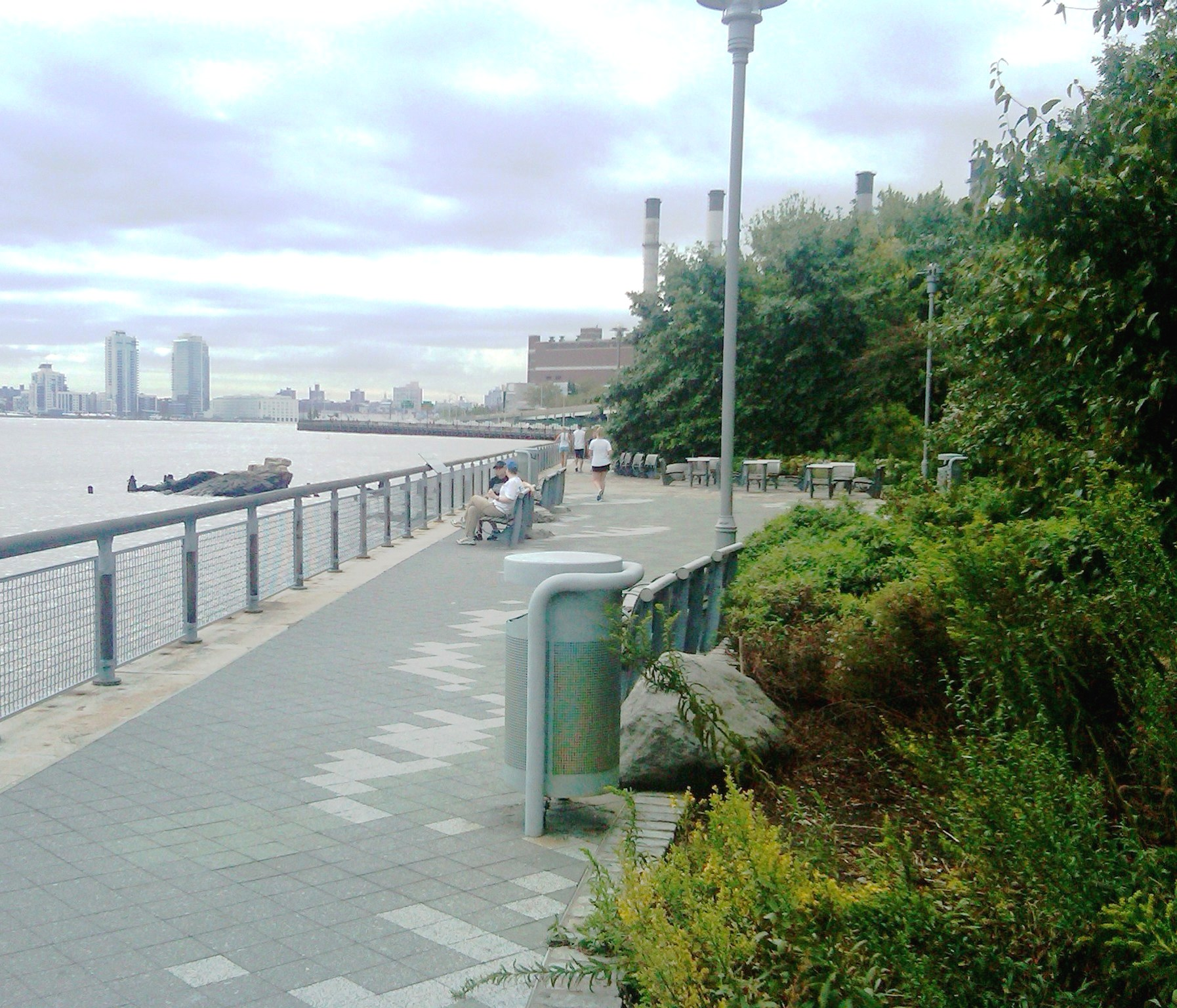 Looking south from Stuyvesant Cove Park